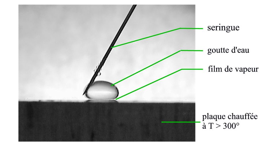 Drop in calefaction on a heated plate to 300 °C. The drop is injected using a syringe and held by Leidenfrost effect over the plate.